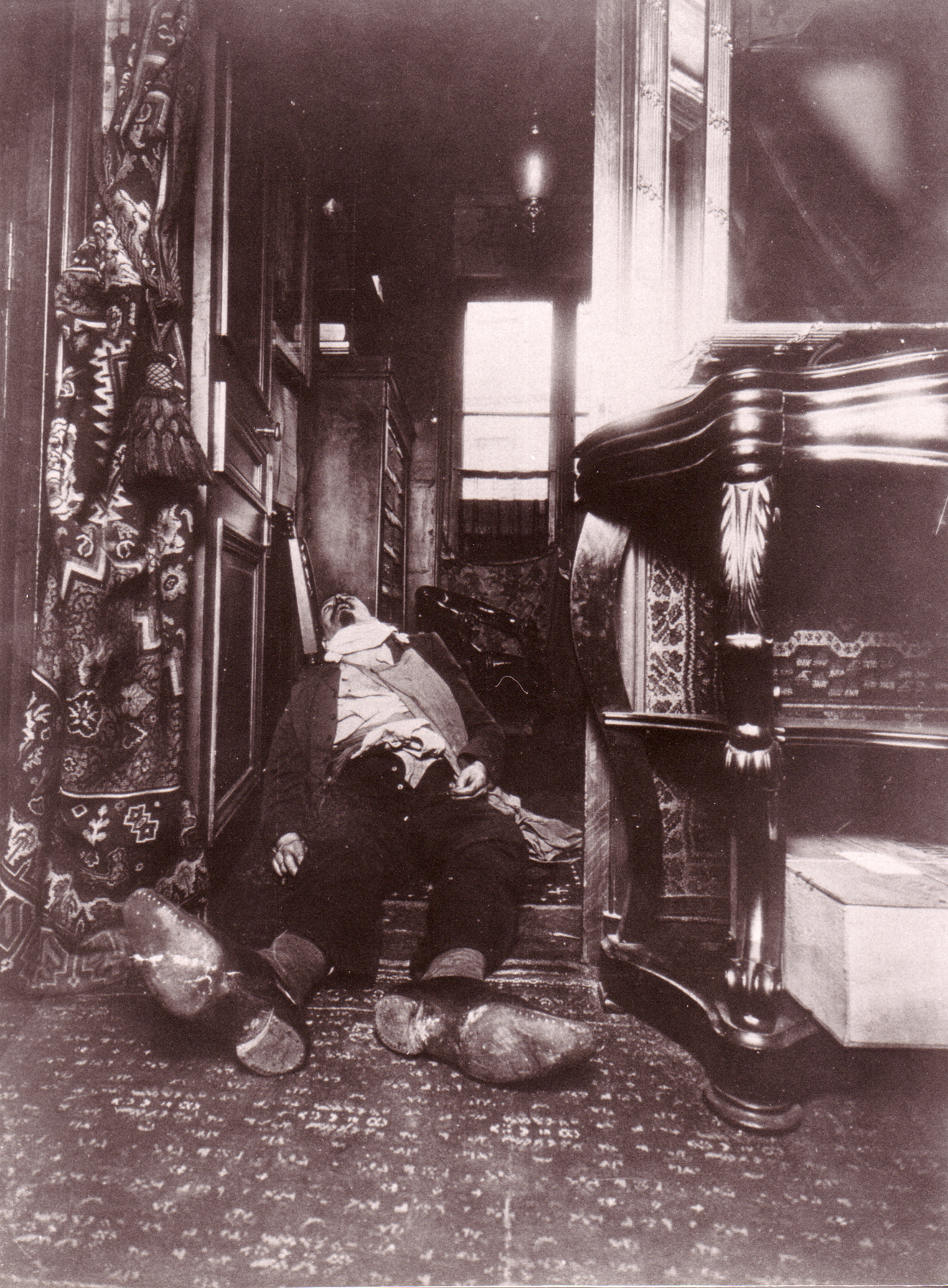 The body of Joseph Reibel, murder victim of Henri Leon Scheffer as it was found October 17, 1902 at 157 rue du Faubourg Saint-Honoré in Paris.